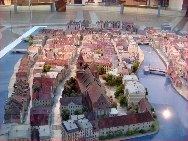 Photography of the model of the dome island (Kneiphof) in the former city of Königsberg